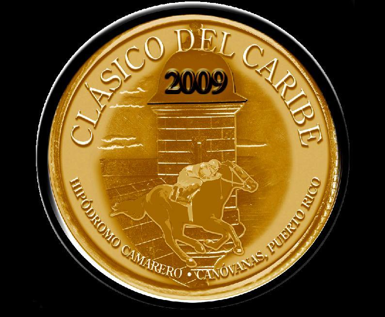 Clasico del Caribe 2009 logo